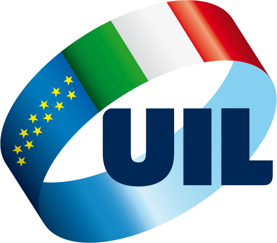 Logo of UIL